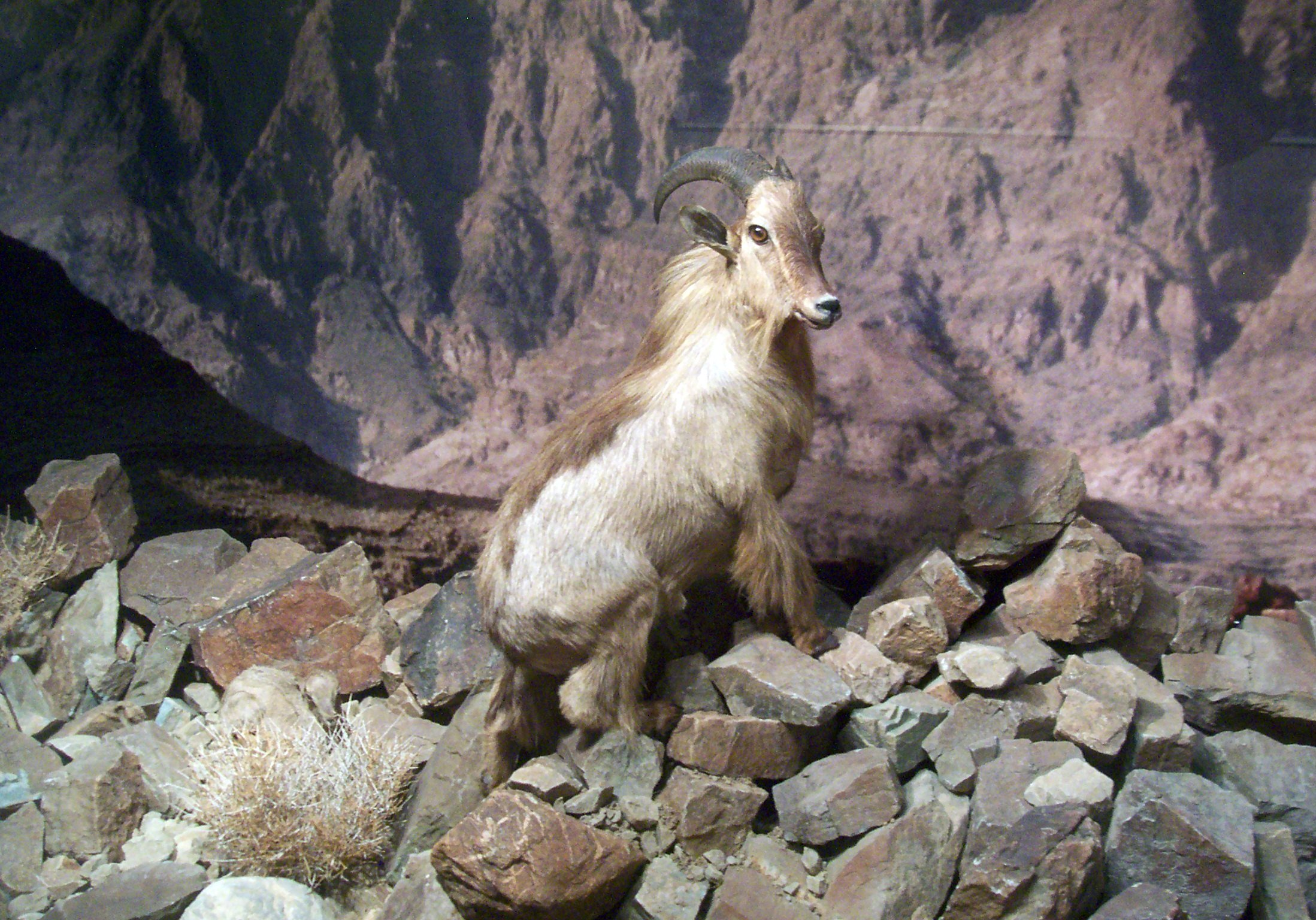 A stuffed Arabian Tahr from the Natural History Museum of the Ministry of National Heritage and Culture in Al-Khuwair.